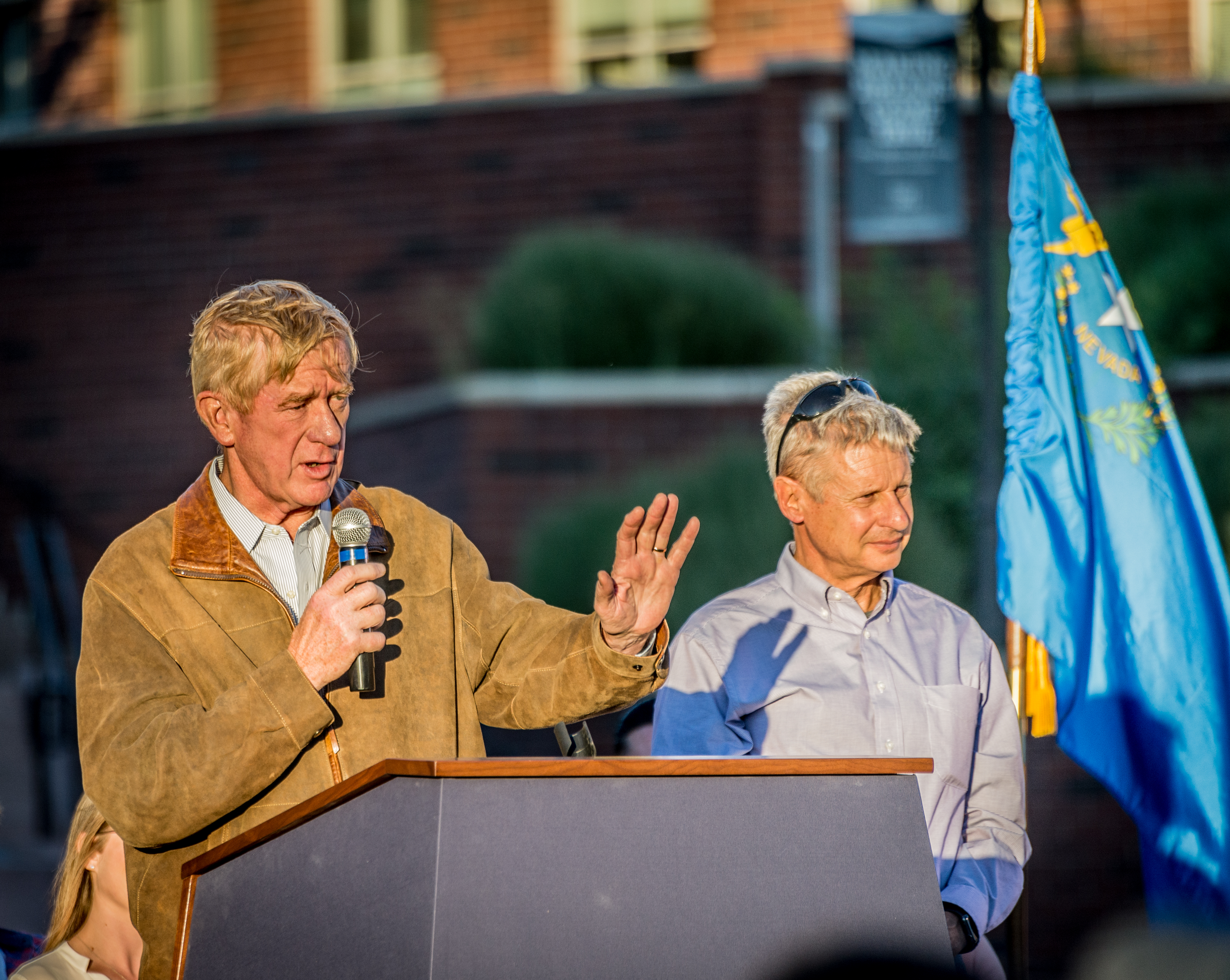 I made these photos at the first Libertarian Party political rally of the 2016 campaign season, for President and Vice-President. It was held on the campus of The University of Nevada, Reno (Nevada) on August 5th.